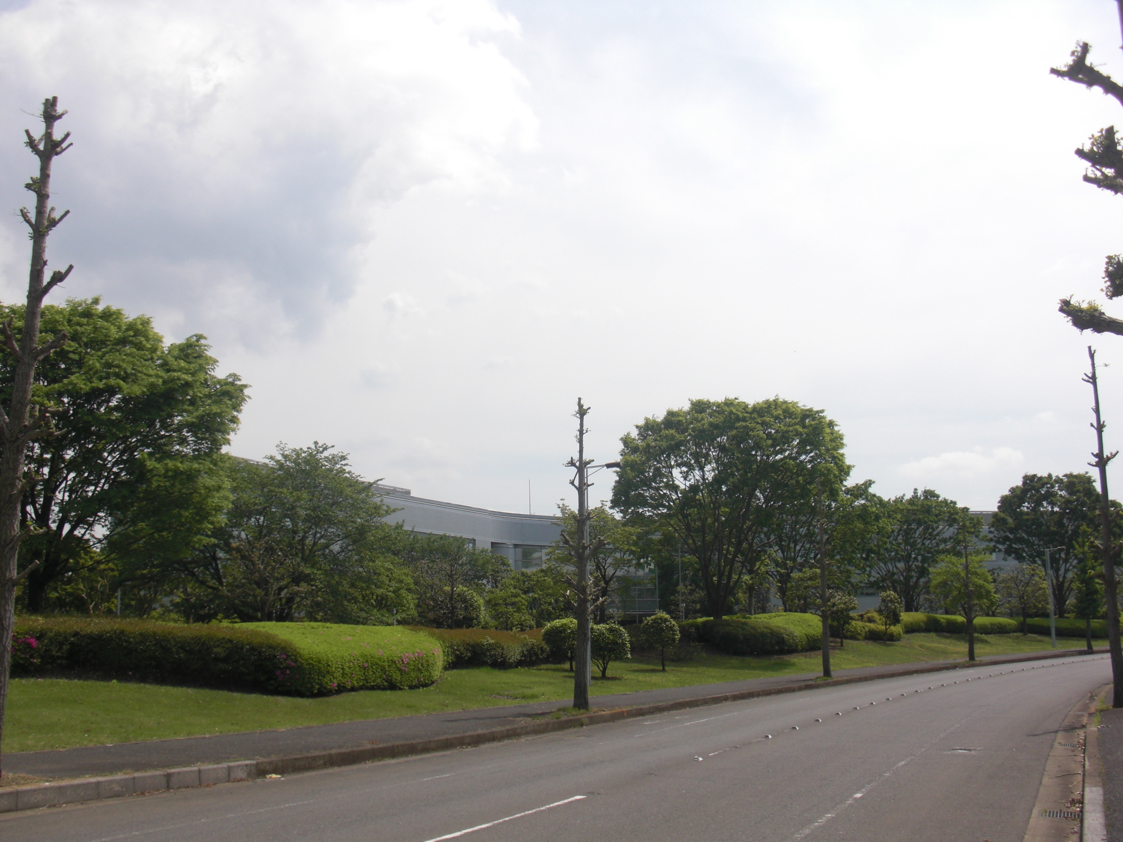 This is the Sumitomo Chemical Tsukuba Development Laboratory in Kitahara, Tsukuba, Ibaraki, Japan.